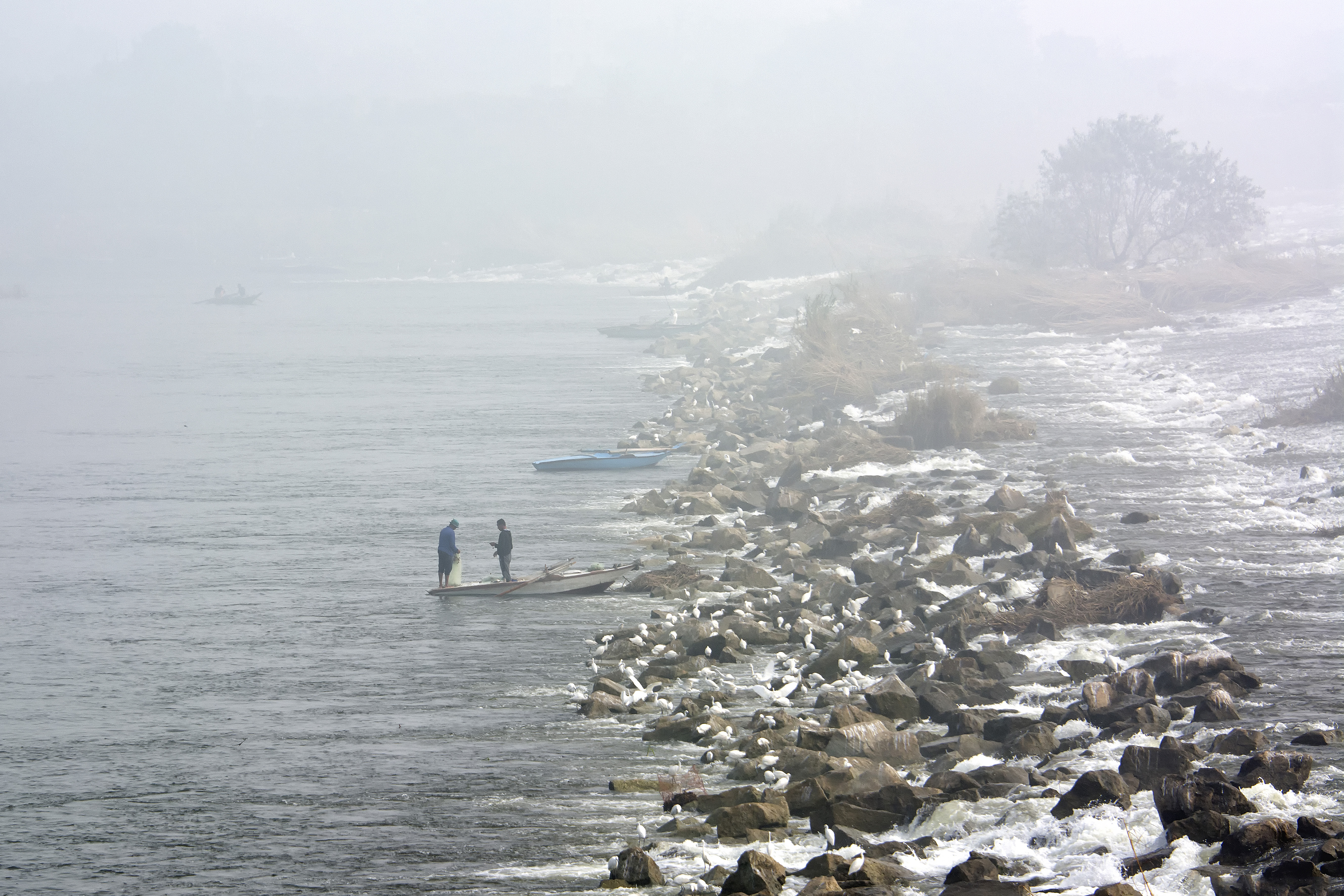 Fishing in a foggy day - El Qanater El Khayreya - Egypt This is an image with the theme "Africa on the Move or Transport" from: Egypt